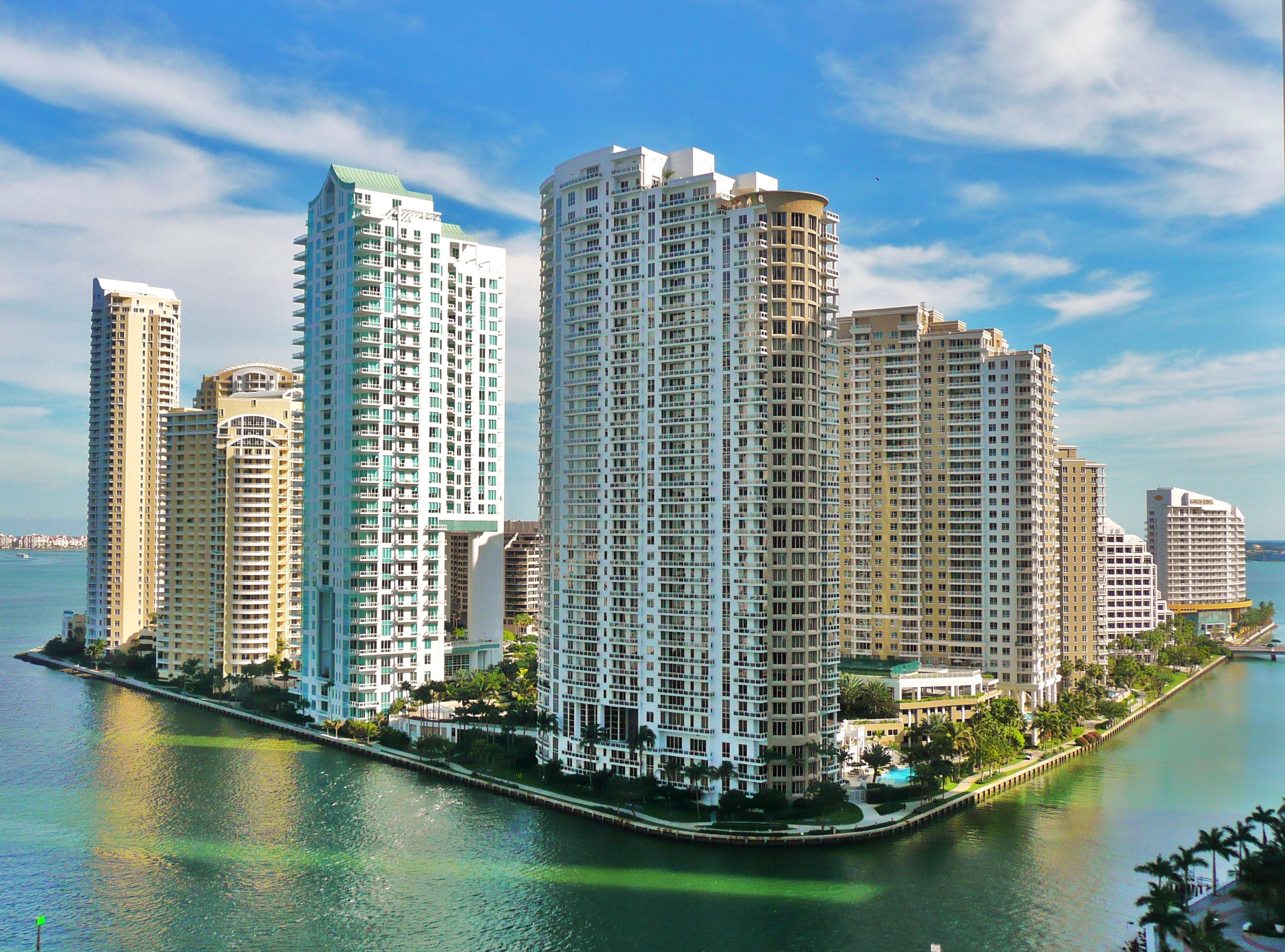 Digital photo taken by Marc Averette. Brickell Key in Downtown Miami, Florida, United States.